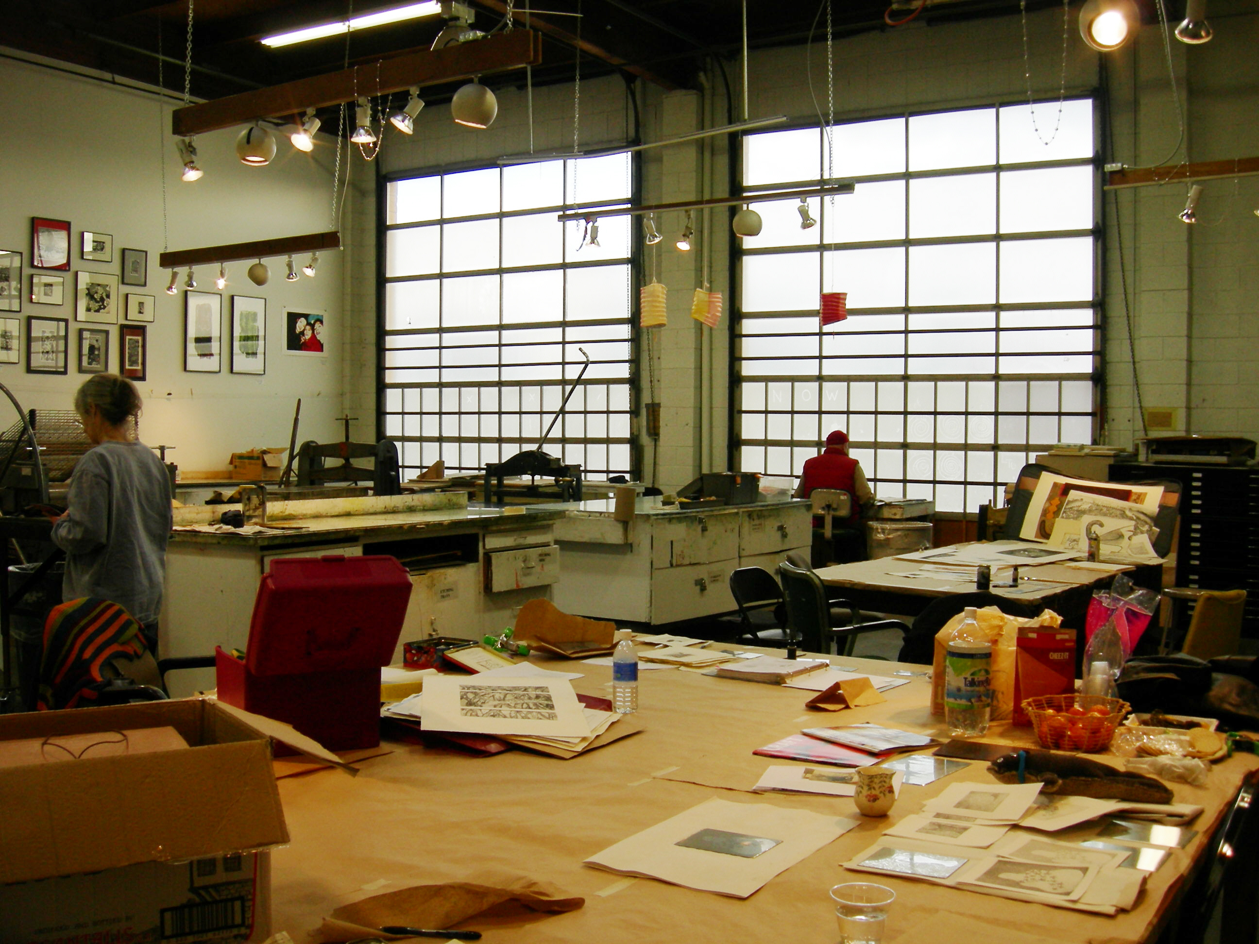 Printmaking building, Pratt Fine Arts Center, Seattle, Washington.